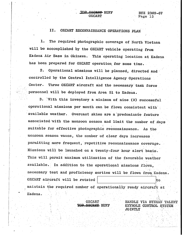 official CIA reference to "Area 51", FOIA document BYE2369-67 Page 17 "OXCART RECONNAISSANCE OF NORTH VIETNAM (W/ATTACHMENT)".